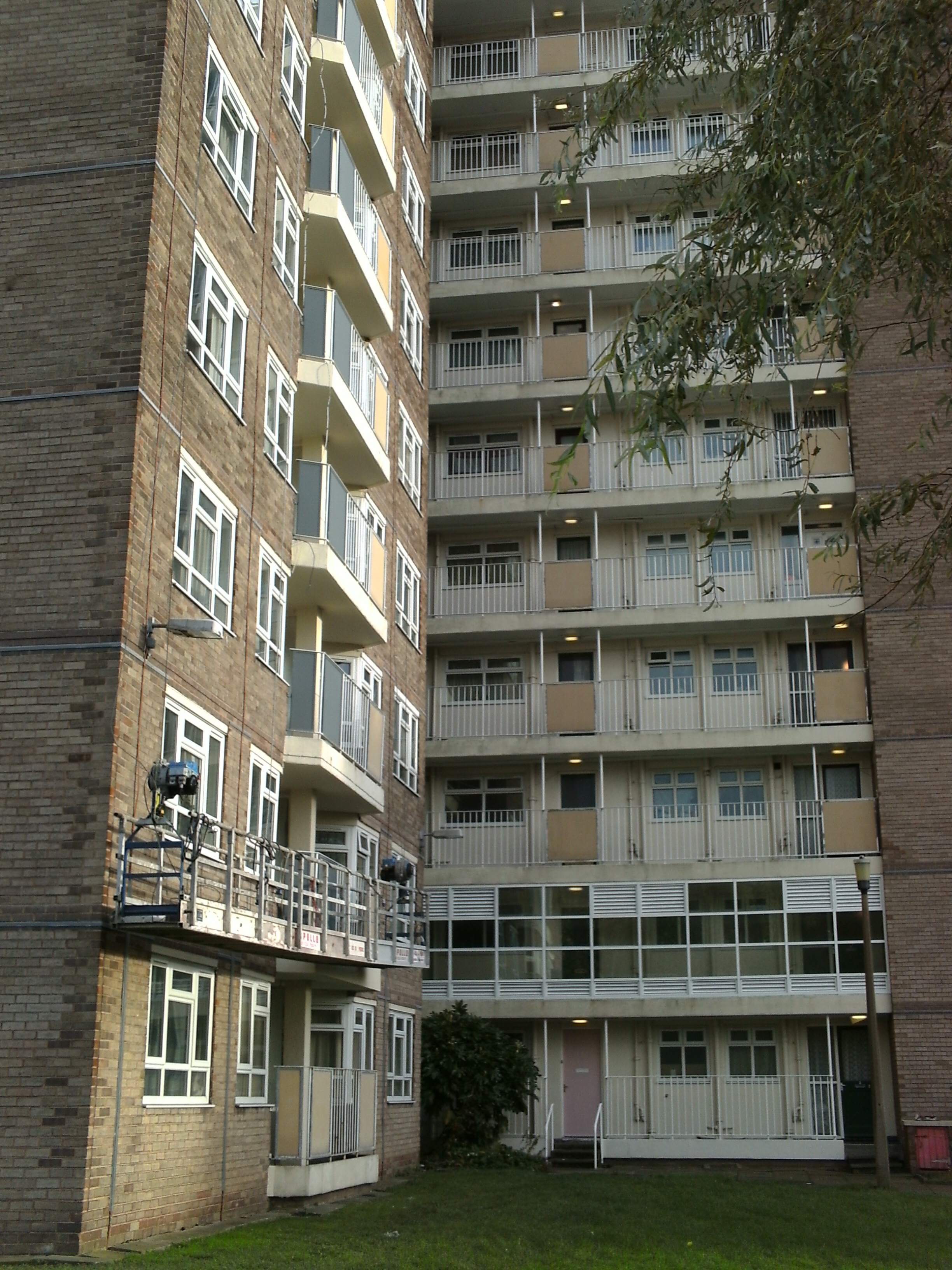 Beaver Court, Ireland Wood, Leeds